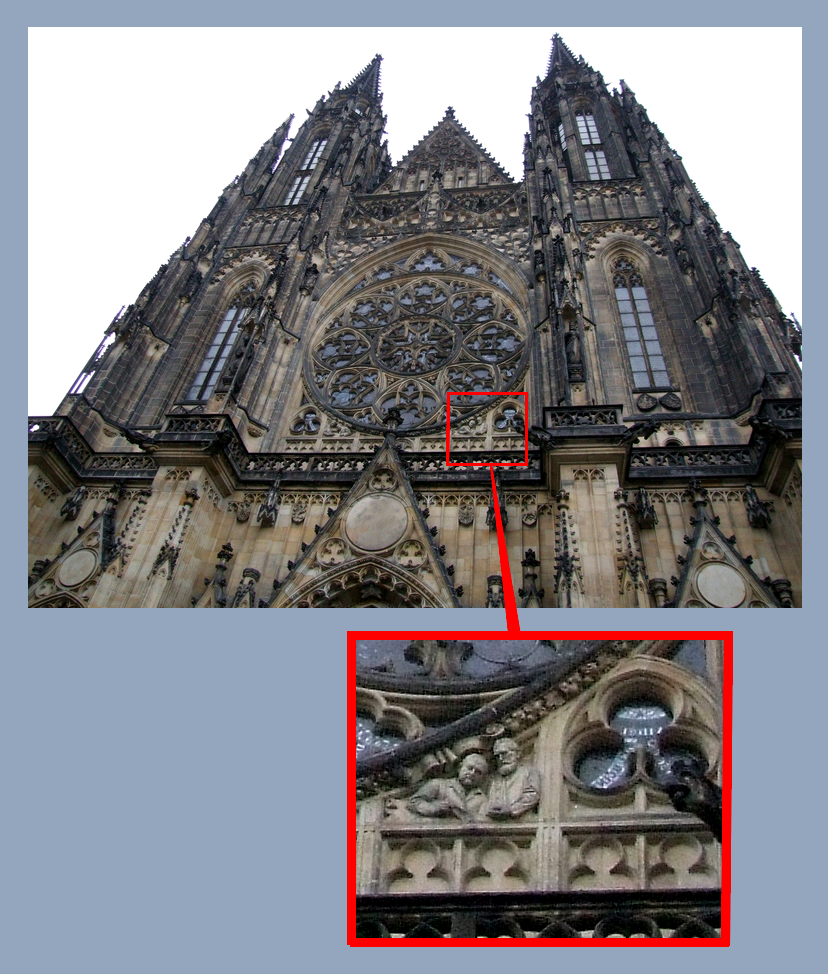 St. Vitus Cathedral in Prague - a detail showing contemporary-looking architects